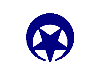 VII Corps, Dept of Arkansas, 3rd Division Badge